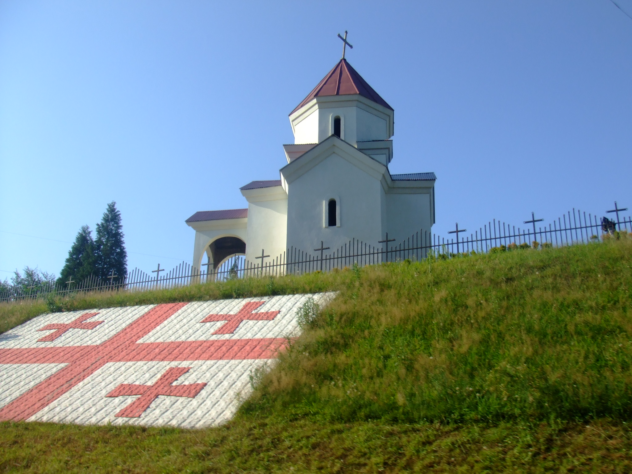 Tsalenjikha